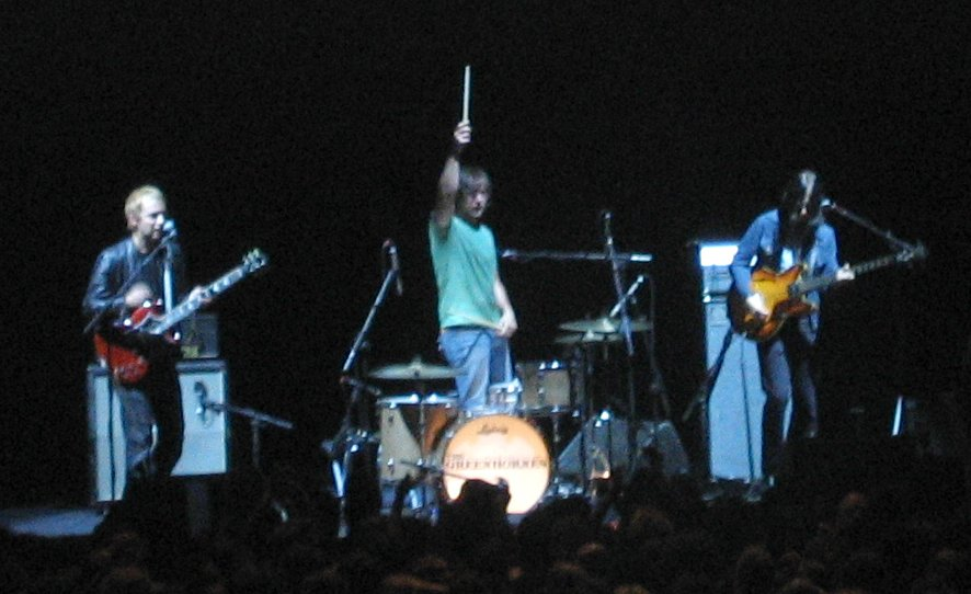 The Greenhornes performing in 2005.